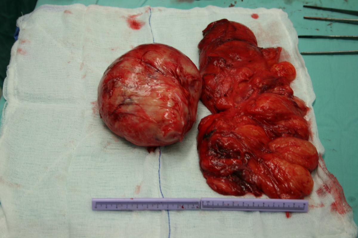 87 year old man with a liposarcoma. The actual size of the tumor.